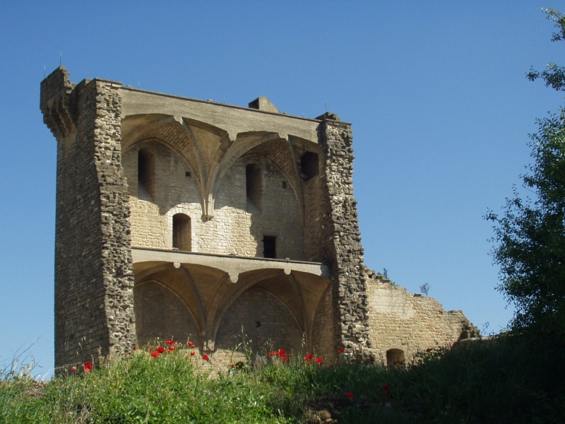 Castle ruin in Châteauneuf-du-Pape, southern France